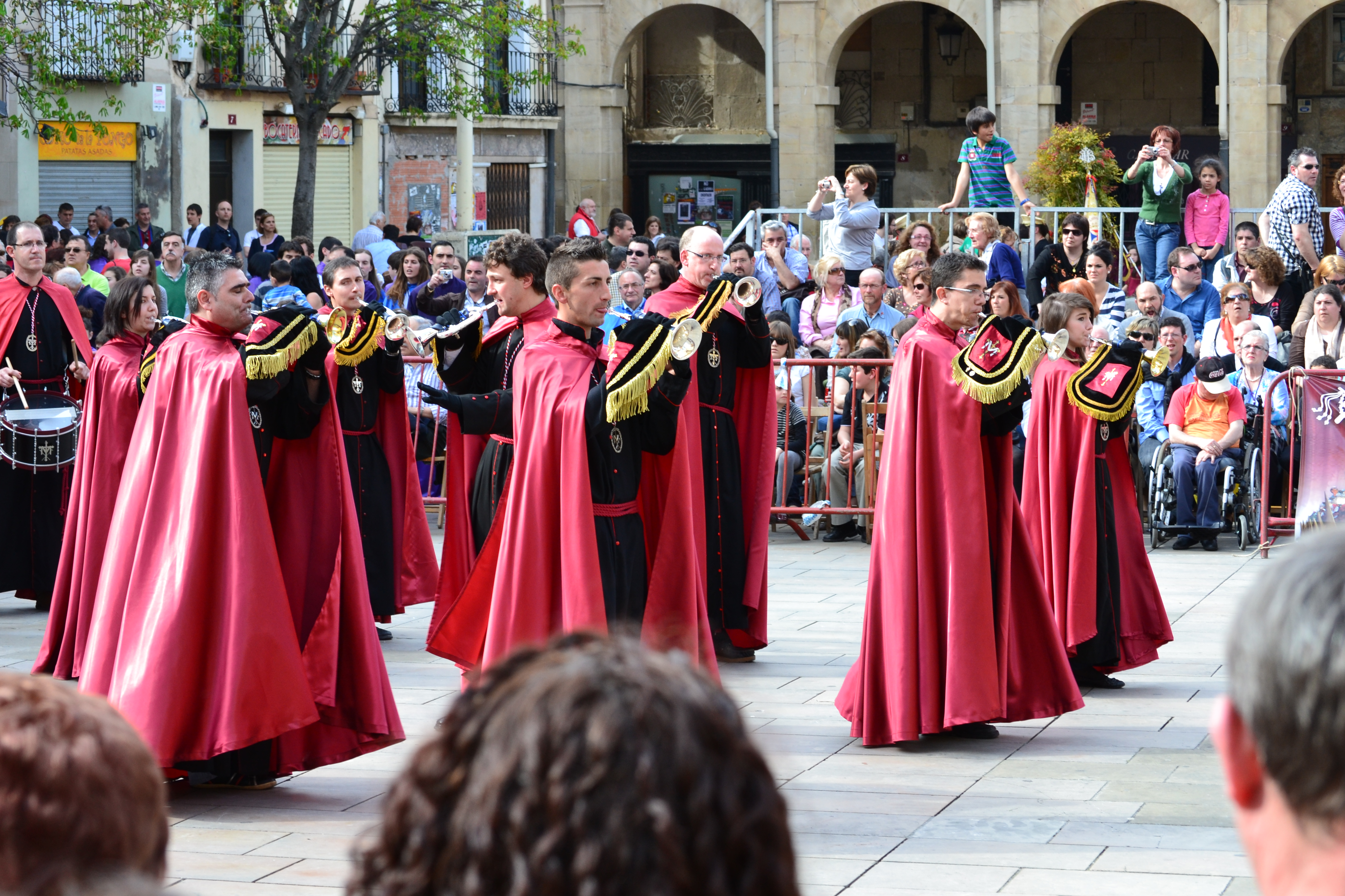 This is a photography of a Folklore festival in Spain (Wikidata id Q23309290).